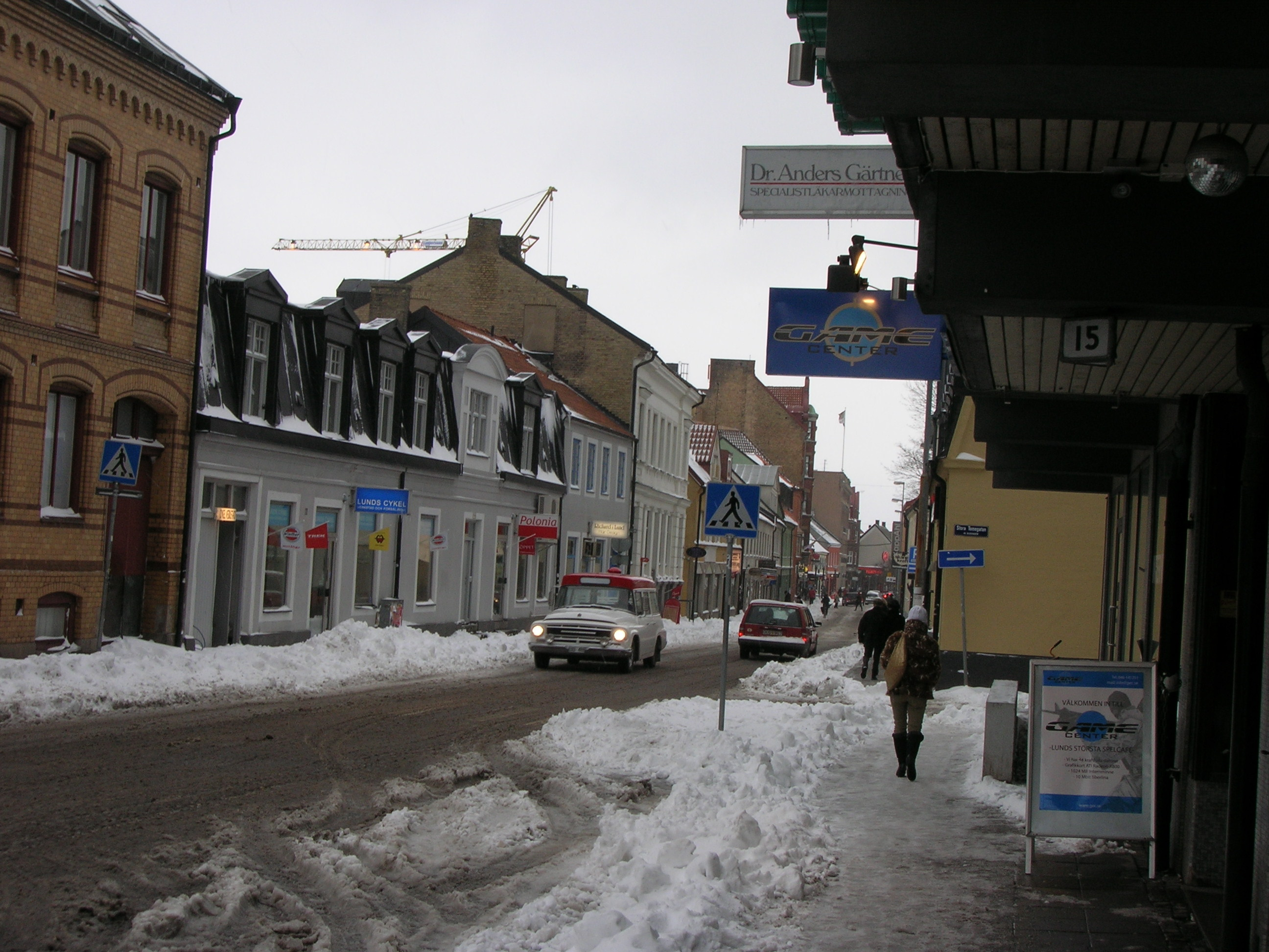 Östra Mårtensgatan in Lund in March 2007.